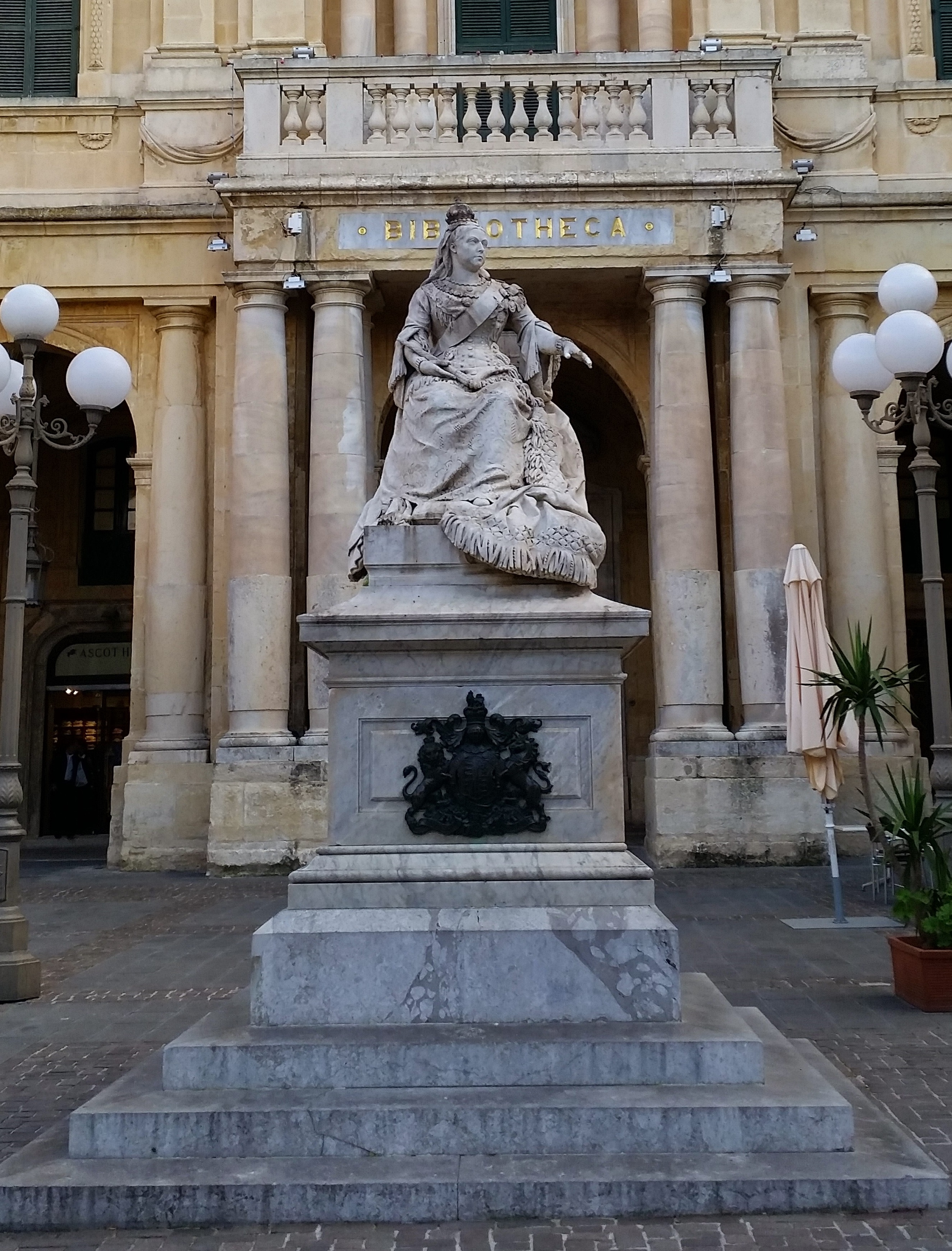 Statue of Queen Victoria in Republic Square, Valletta